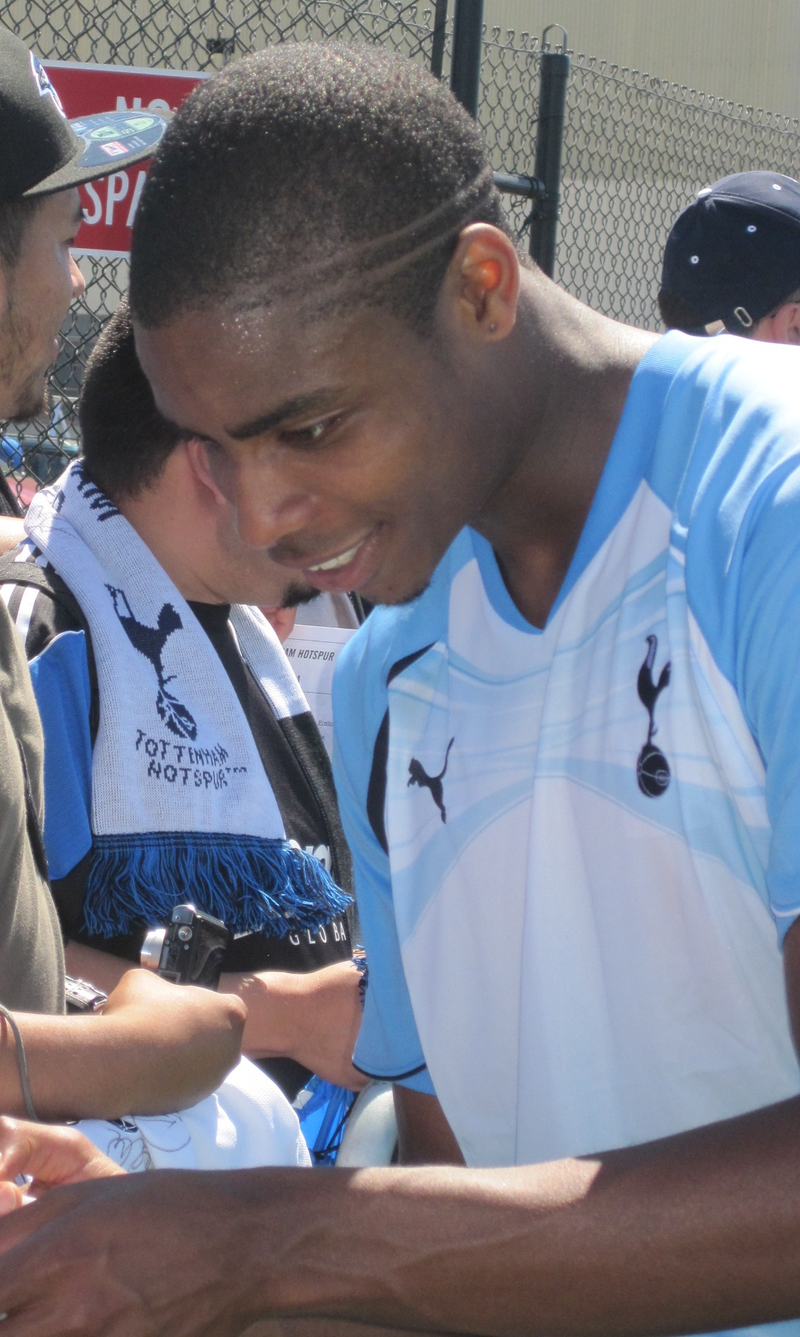 Jonathan Obika of Tottenham Hotspur signing autographs in San Jose, California.